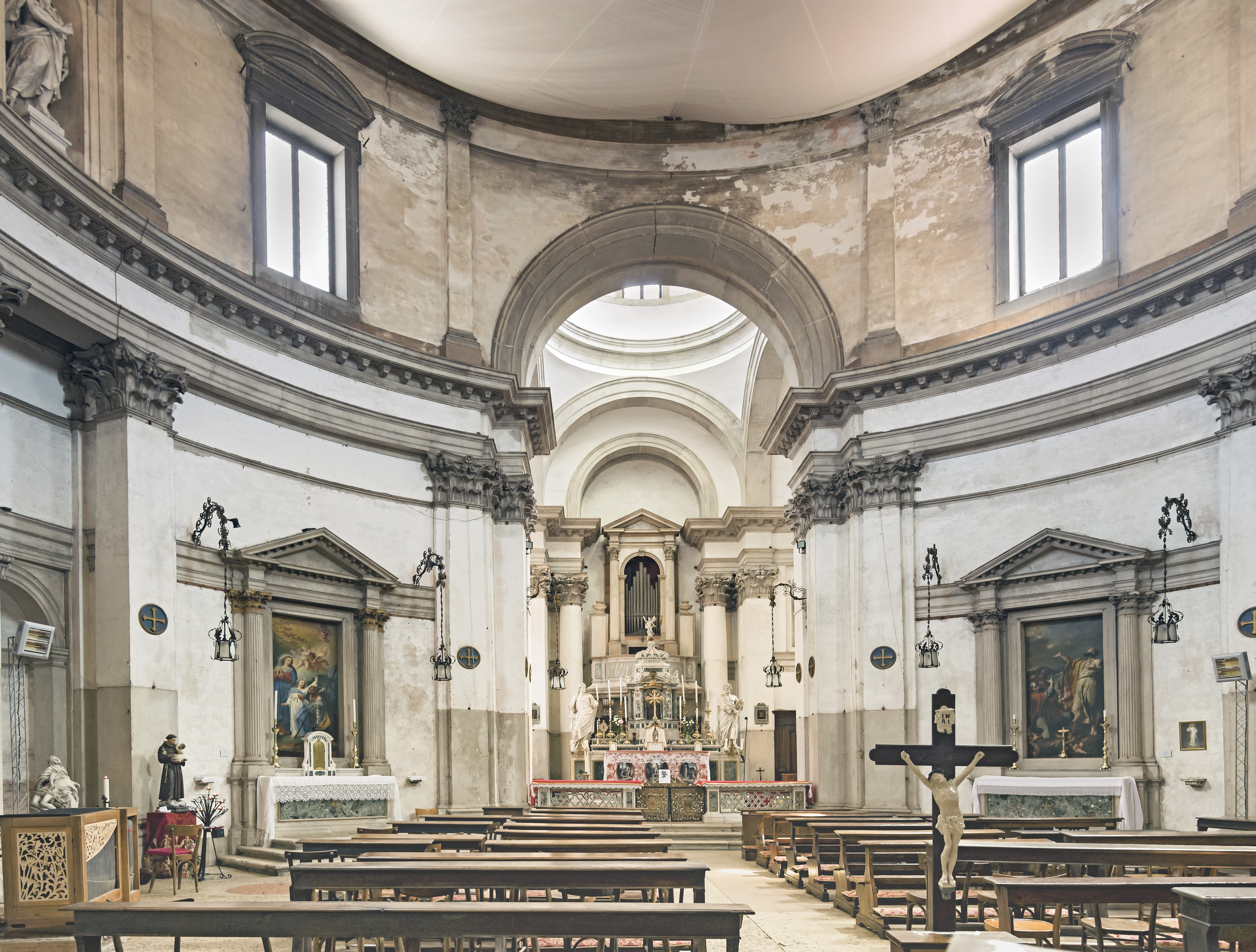 Interior of San Simeone Piccolo Eighteenth century by architect Giovanni Antonio Scalfarotto, Venice.